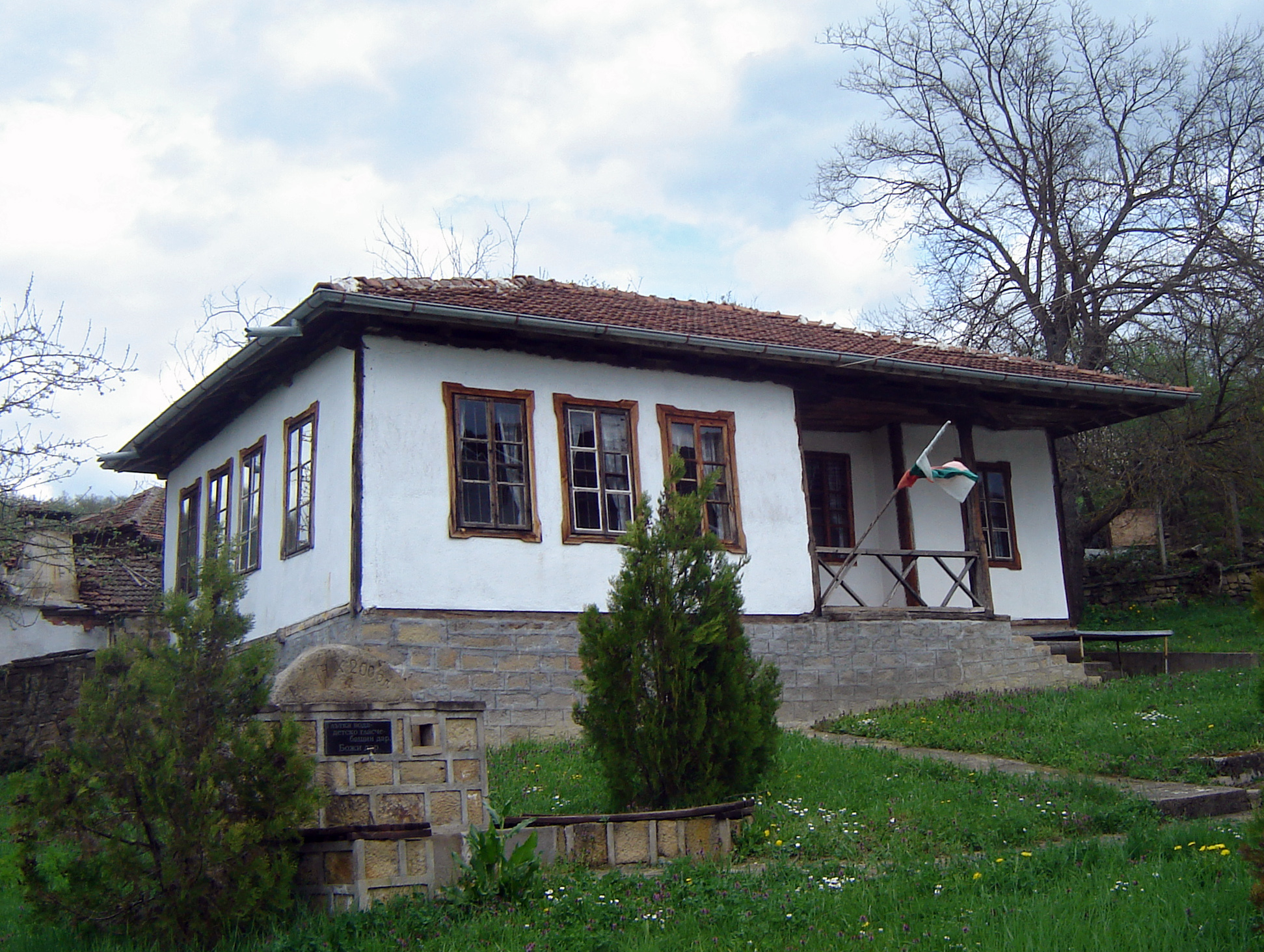 The former monastery school in Bozhenitsa, Bulgaria, nowadays functioning as a museum.